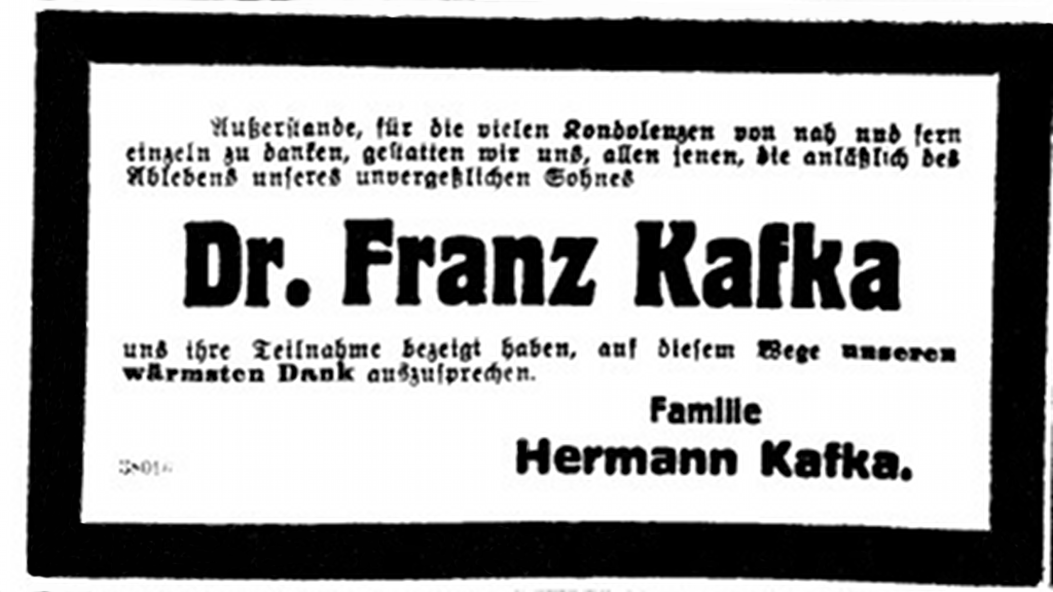 Obituary Dr. Franz Kafka, 27th of june 1924